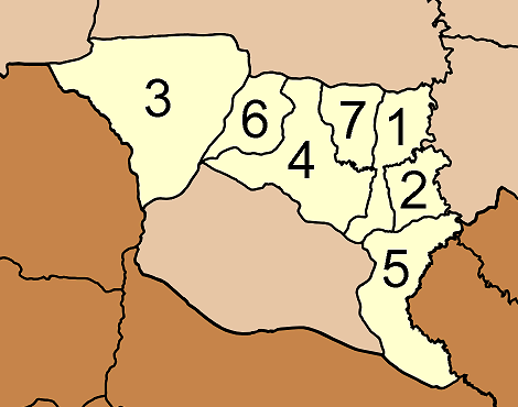 Map of Phrasaeng district, Surat Thani province, with the communes (tambon) numbered I Pan (อิปัน) Sin Pun (สินปุน) Bang Sawan (บางสวรรค์) Sai Khueng (ไทรขึง) Sin Charoen (สินเจริญ) Sai Sopha (ไทรโสภา) Sakhu (สาคู)